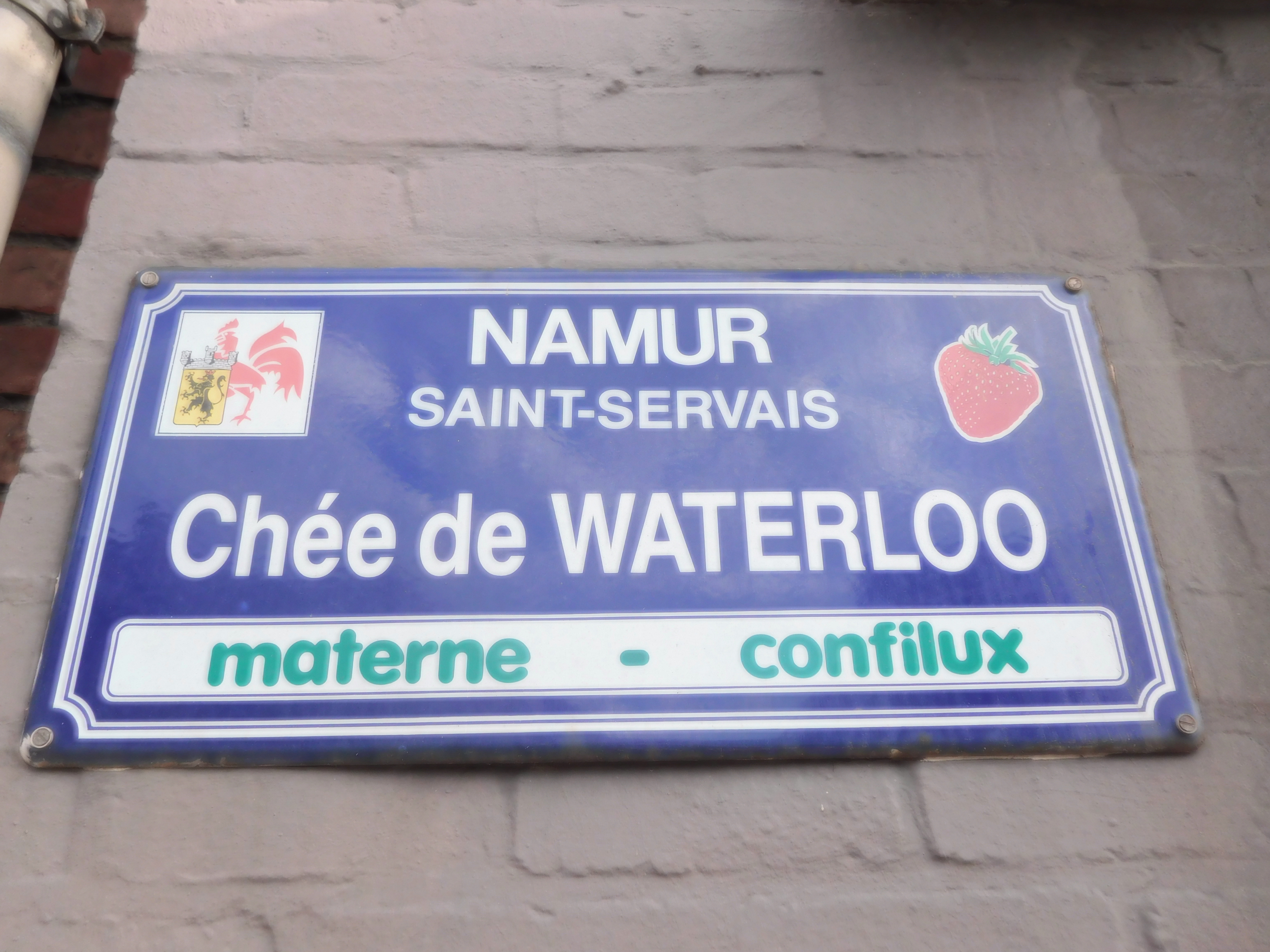 Street name in Saint-Servais (Namur), Belgium